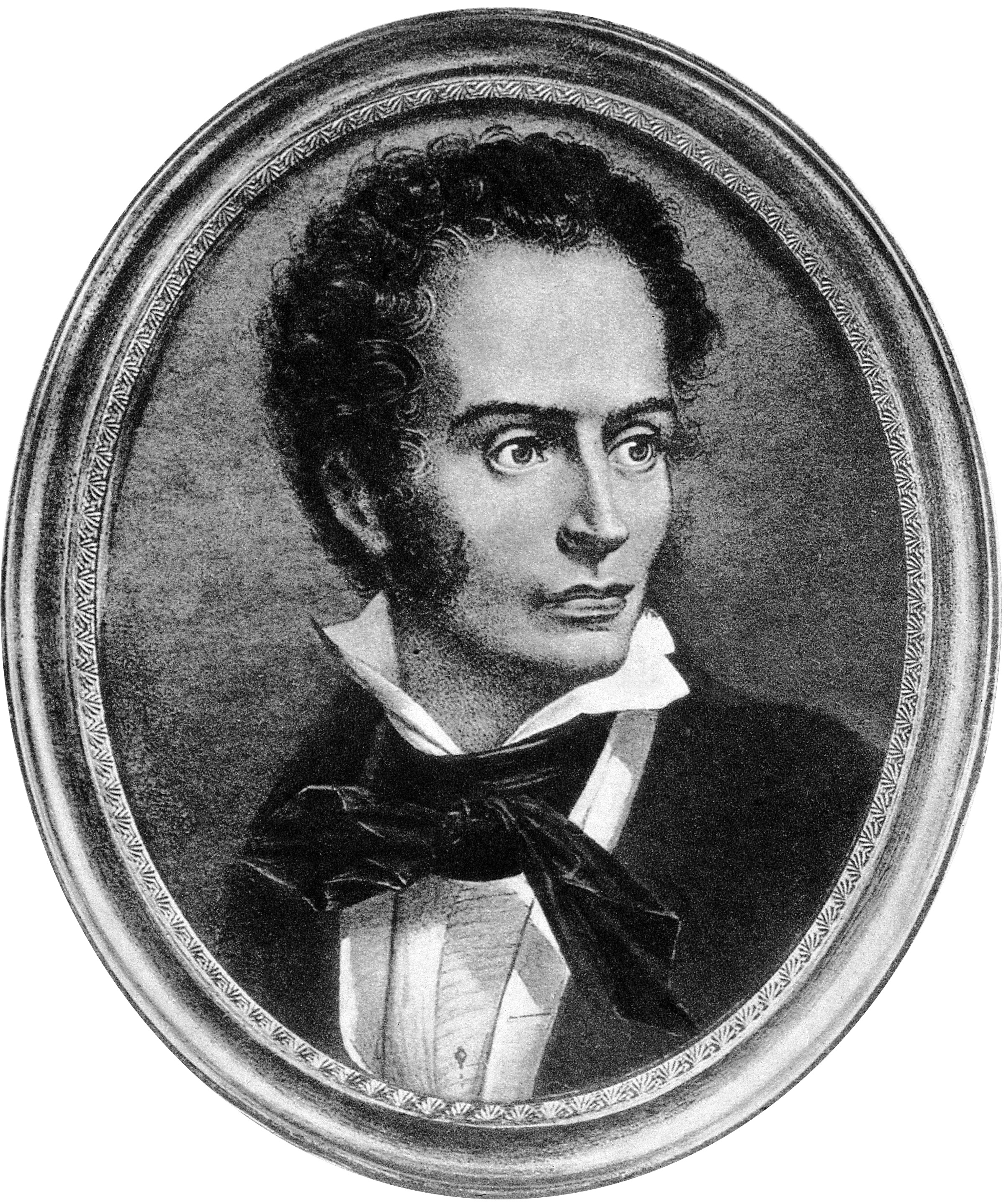 René Théophile Hyacinthe Laënnec. Reproduction of miniature on ivory